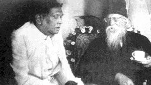 Nobel laureate Rabindranath Tagore (right) with Bengal prime minister Sher-e-Bangla A K Fazlul Huq